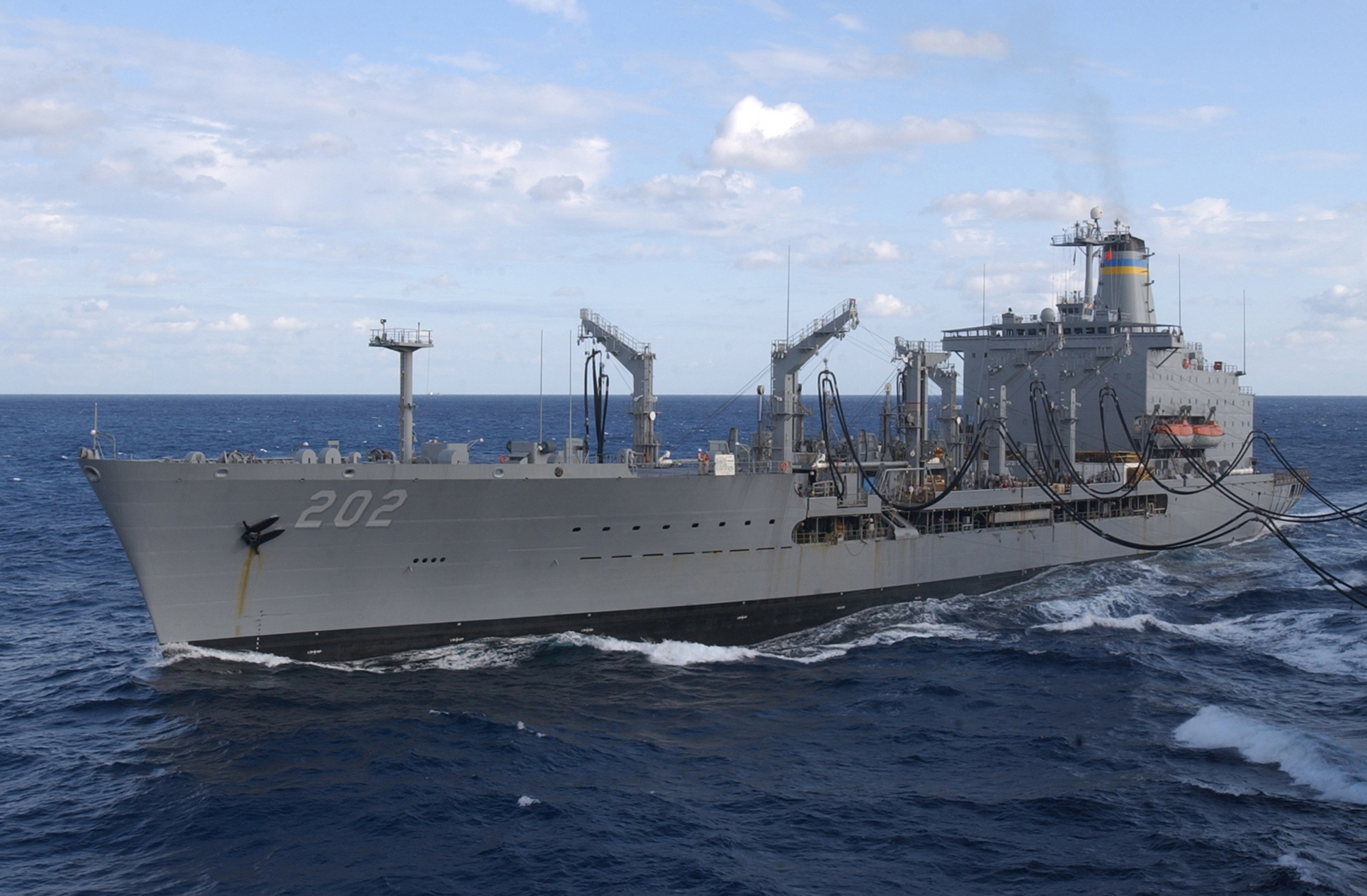 At sea aboard USS Kitty Hawk (CV 63) Oct. 18, 2003 -- The Military Sealift Command Oiler USNS Yukon (T-AO 202) cruises alongside USS Kitty Hawk (CV 63), preparing for replenishment-at-sea (RAS) evolutions. A RAS is the on and off-loading of fuel and stores while ships are underway. Kitty Hawk is currently undergoing sea trials after recently completing an extensive five-month maintenance period in Yokosuka, Japan. Kitty Hawk is America's oldest active warship, and the world's only permanently forward-deployed aircraft carrier. U.S. Navy photo by Photographer’s Mate 3rd Class Jason T. Poplin. (RELEASED)